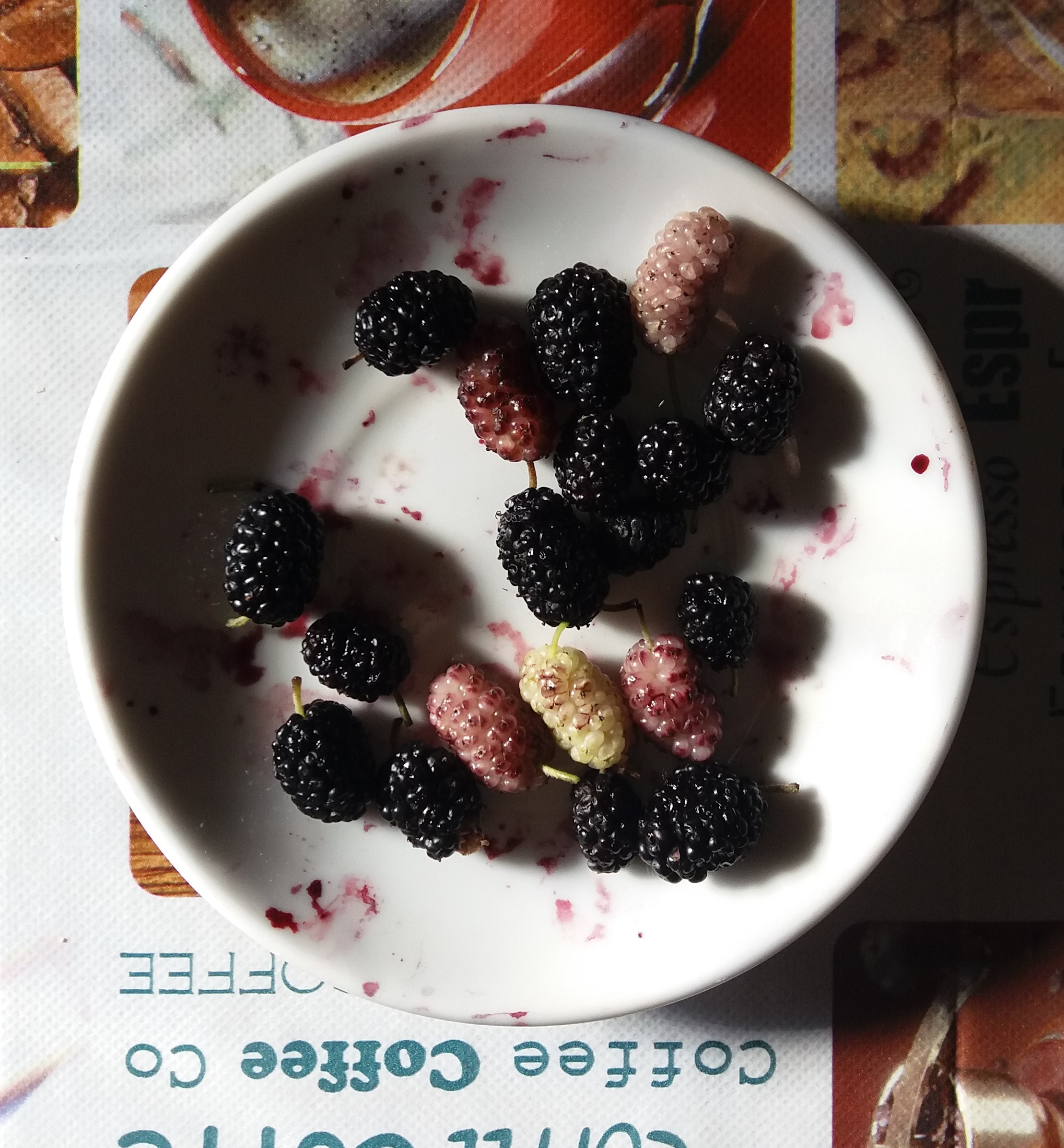 Mulberries of different species, May 2019, harvested in Valencia (Spain).